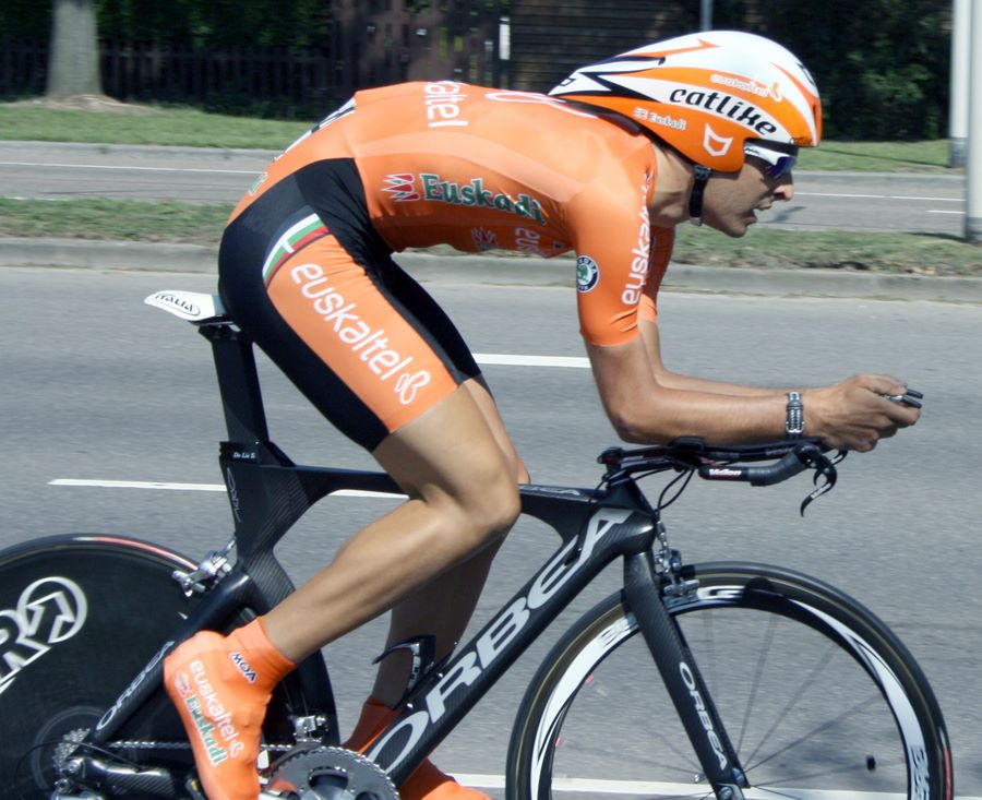 Sergio De Lis at the 2009 Eneco Tour prologue